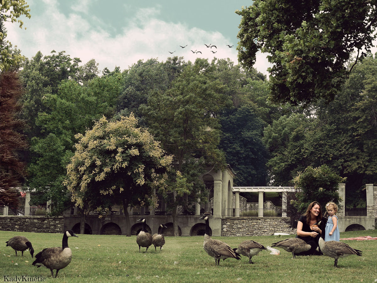 One of the many faces of Krug Park.